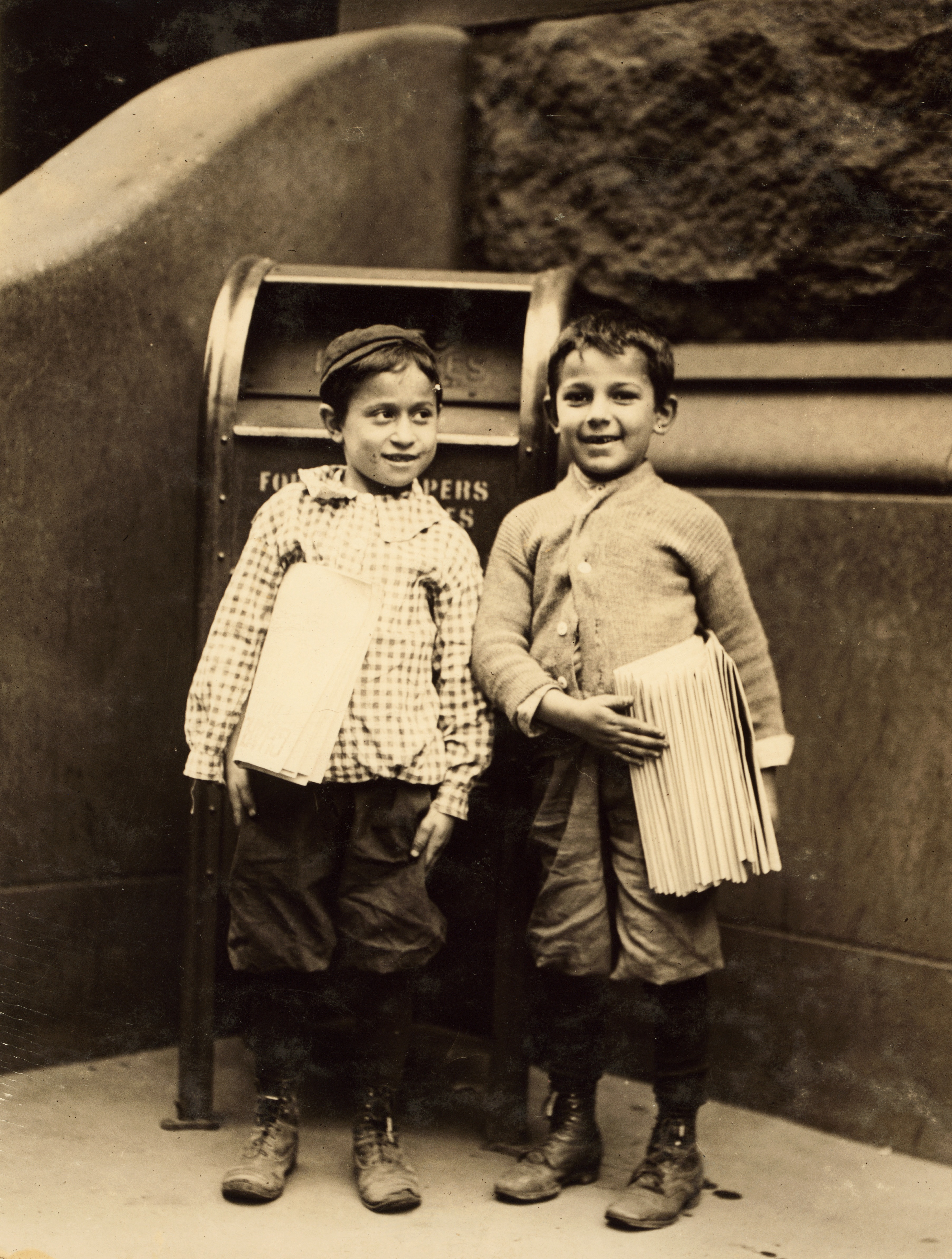 Willie Cohen, 1210 So. 6th St., 8 years of age, newsboy, attends John Hay School. Was selling papers at Phila. & Reading Terminal 10:30 A.M. Monday June 13th, Said it was Jewish Holiday. Max Rafalovizht, 1300 So. 6th St, 8 years old, attends John Hay School, was selling papers at Phila. & Reading Terminal, June 13th, 1910. Location: Philadelphia, Pennsylvania. Photograph by Lewis Wickes Hine, 13 June 1910.